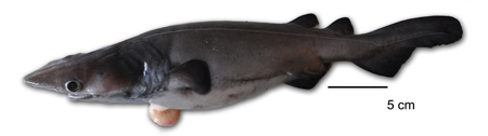 Embryo of the bramble shark (Echinorhinus brucus), from Cochin, India